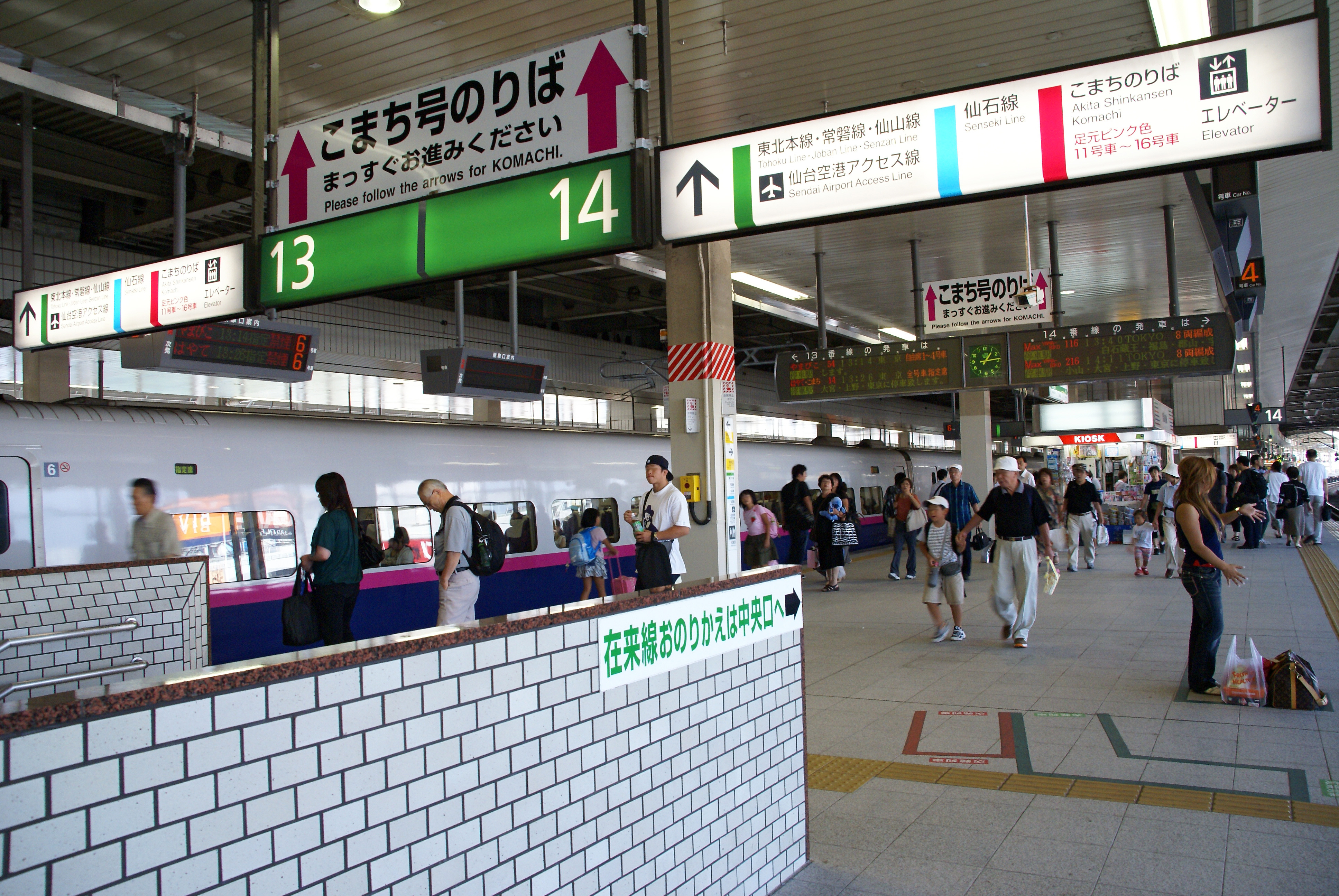 Sendai Station in Sendai, Miyagi prefecture, Japan